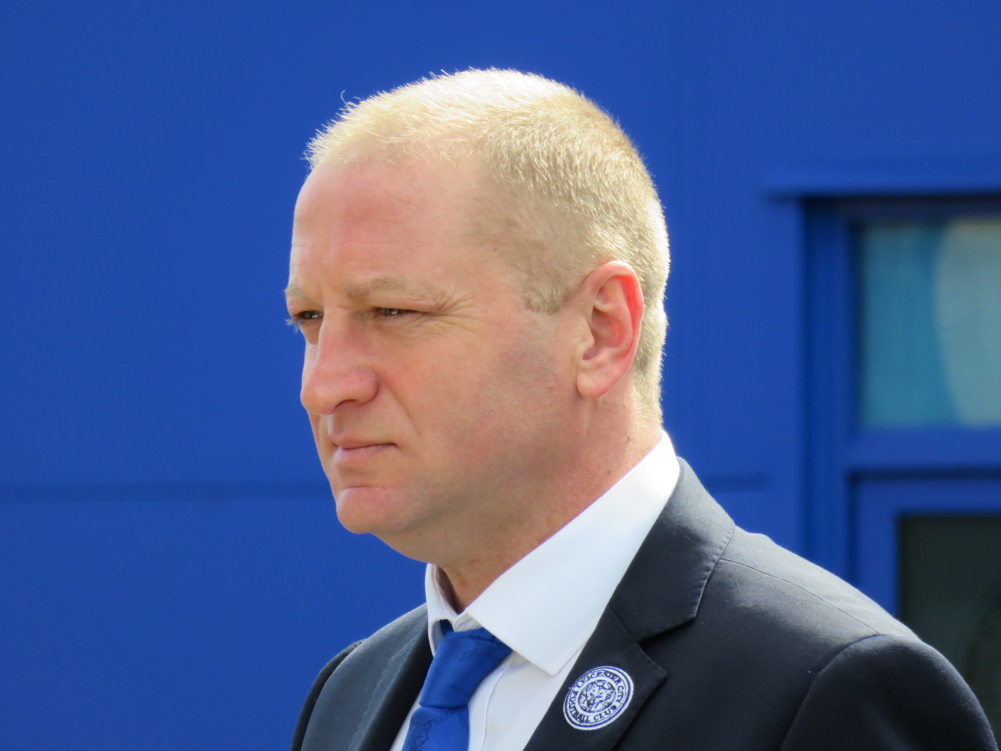 Former Leicester City footballer, Matt Elliott outside the Kingpower Stadium, Leicester, before Leicester's game against West Ham United.